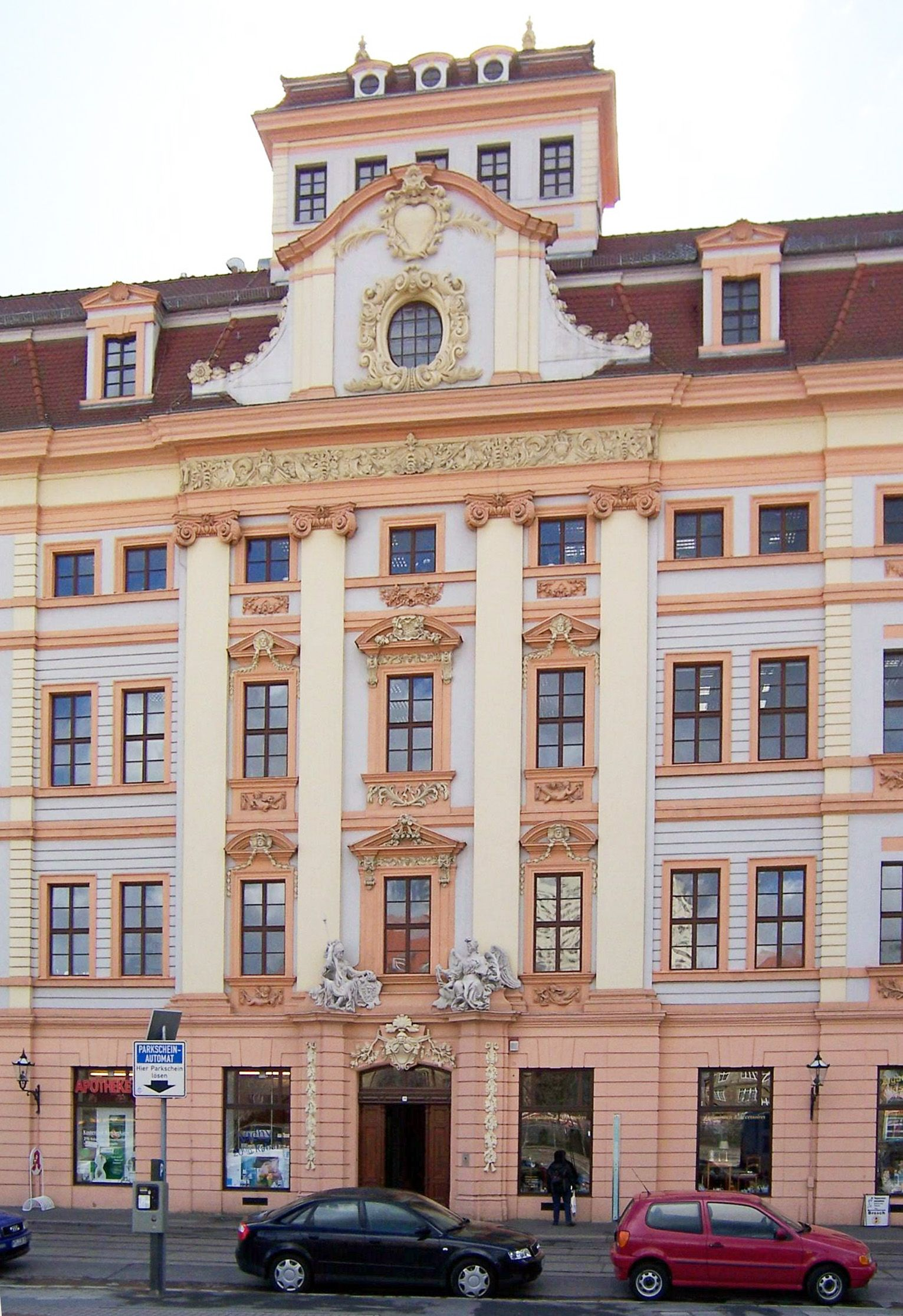 Romanushaus (built 1701—04), baroque city palace in Leipzig, Saxony, Germany: northern facade facing Brühl